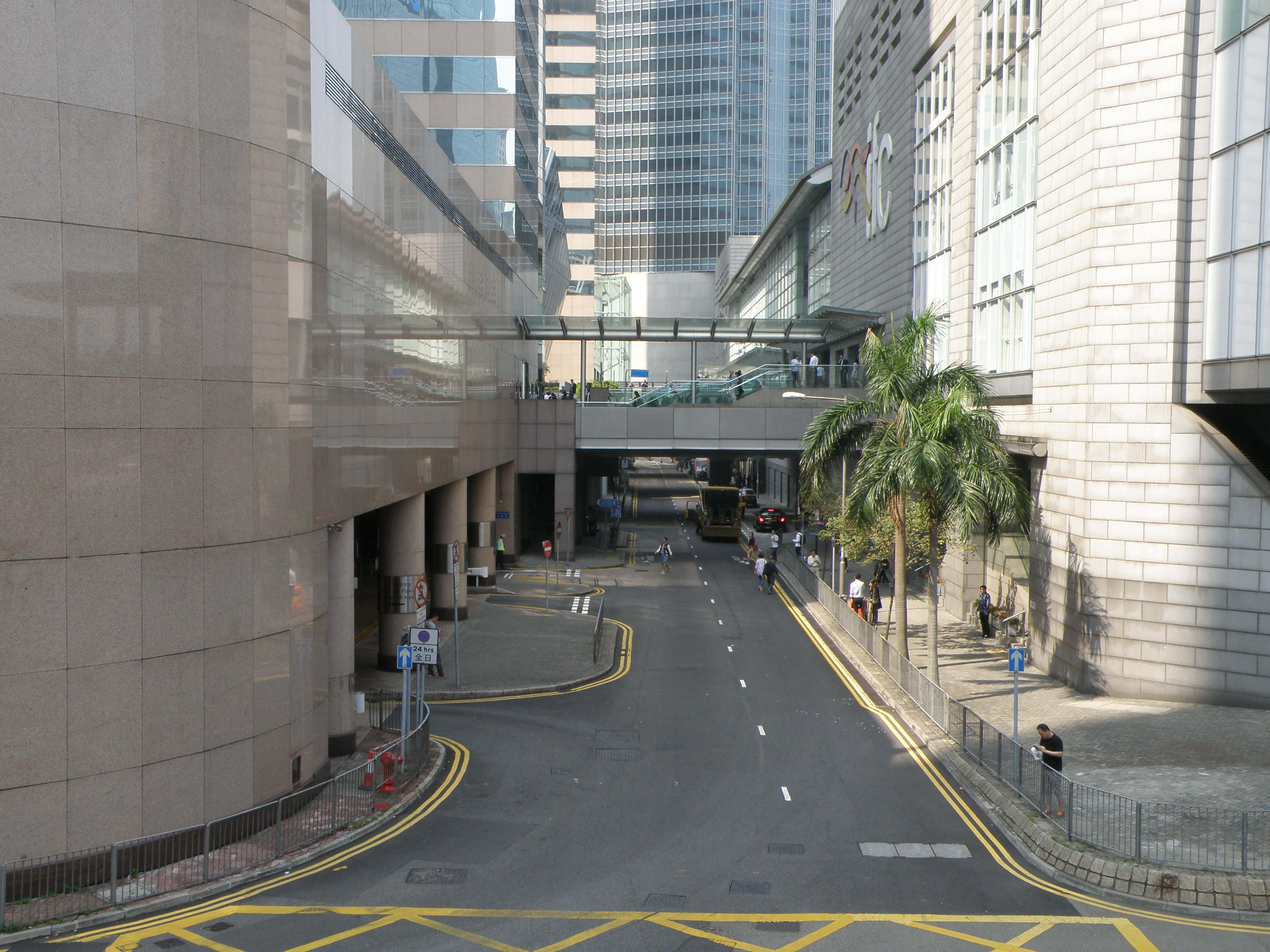 Harbour View Street in Central, Hong Kong.